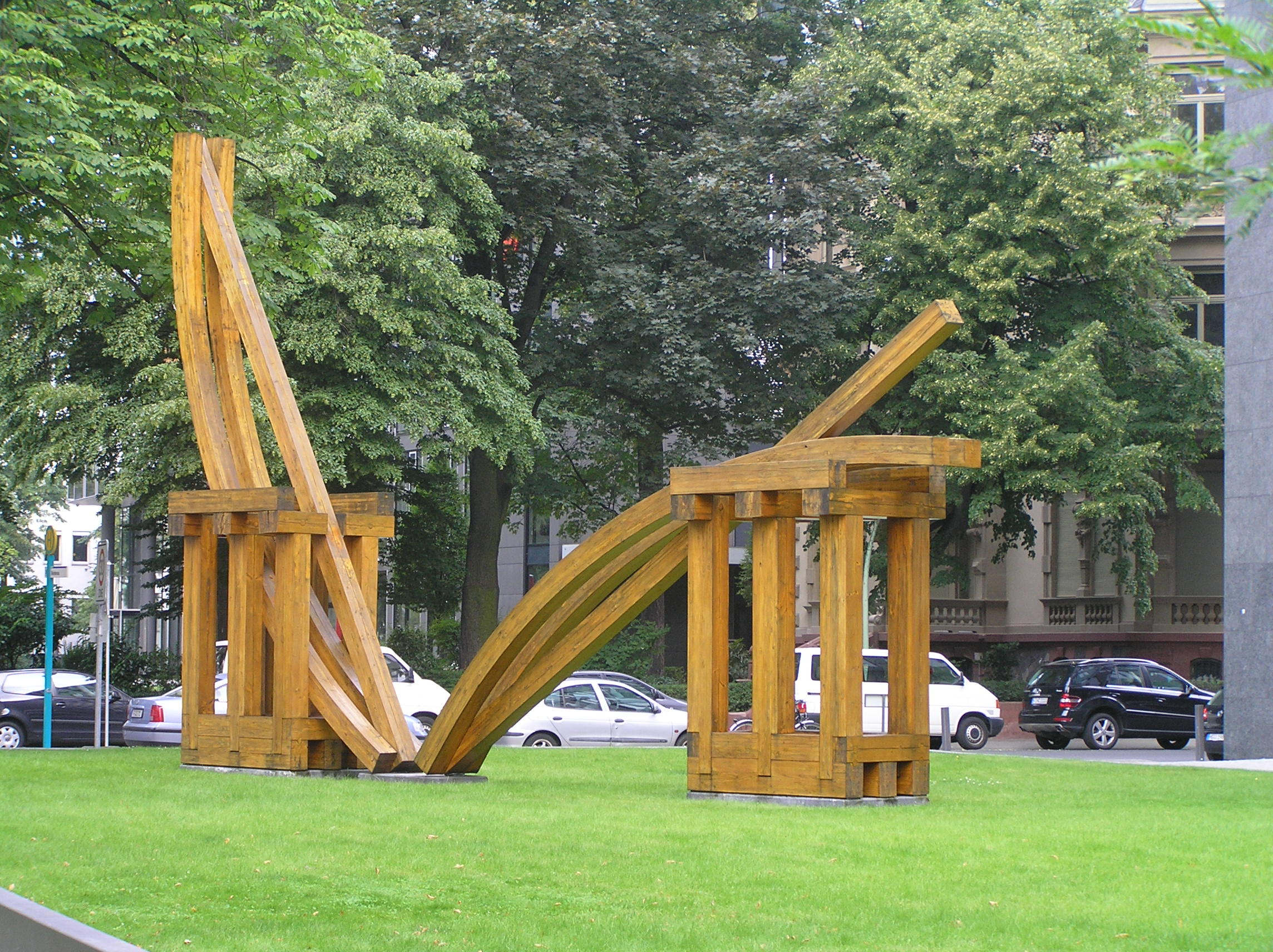 Sculpture "Spannungsbogen" ("arc of tension") from Claus Bury. The Sculptur was part of the exhibition "Blickachsen 4" (year 2003) in Bad Homburg. Today the sculpture is placed permanently in front of the building of AXA insurance company, Bockenheimer Landstrasse, Frankfurt am Main